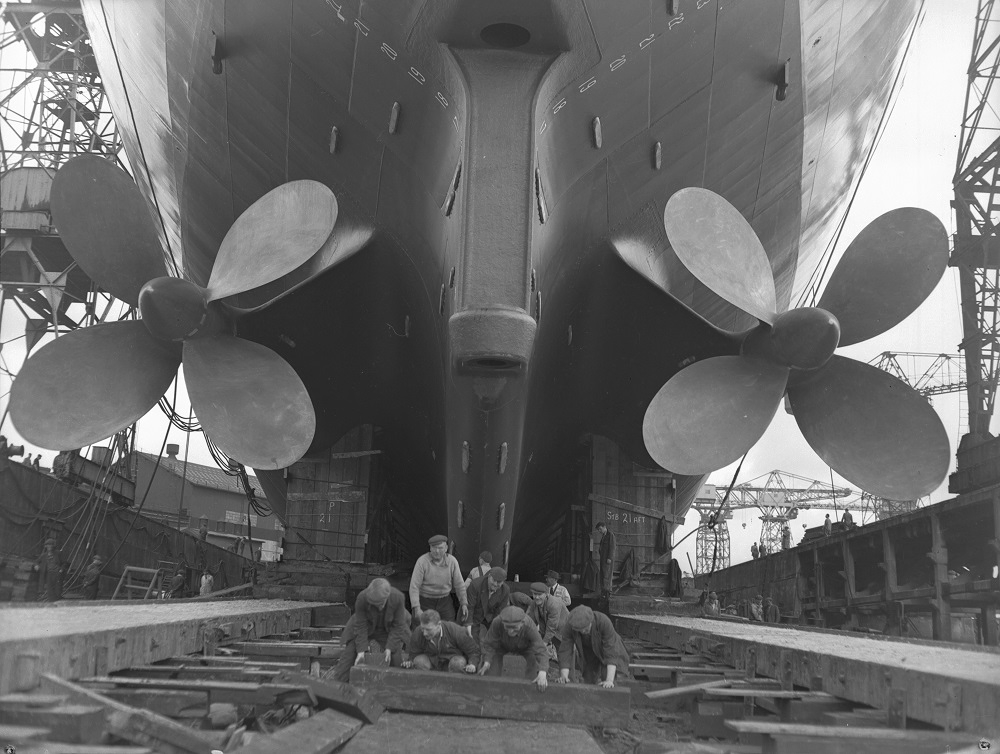 Shipyard workers preparing the slipway for the launch of the passenger ship Northern Star at the Walker Naval Yard, Newcastle upon Tyne